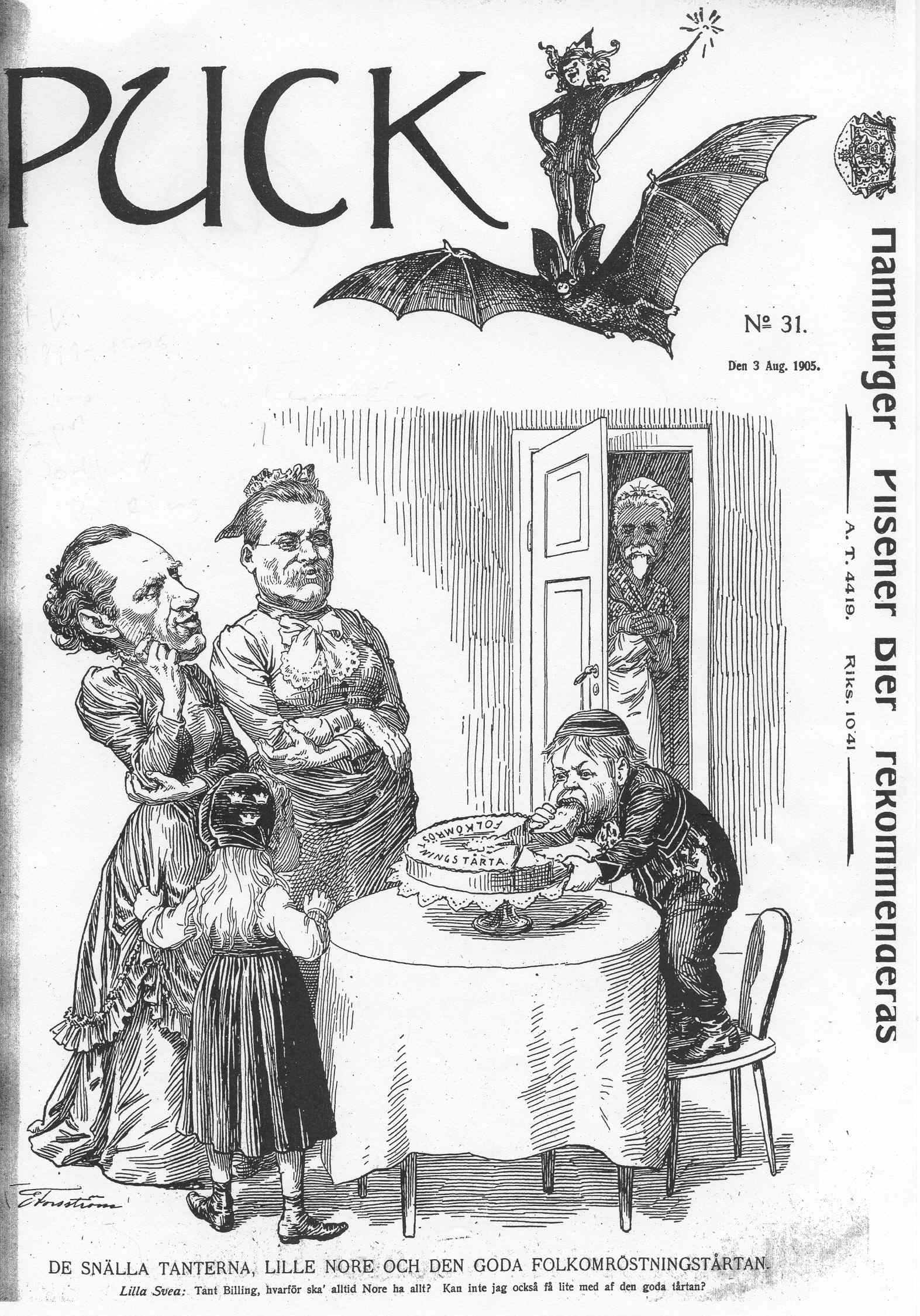 Cover of Swedish magazine Puck from 1905.